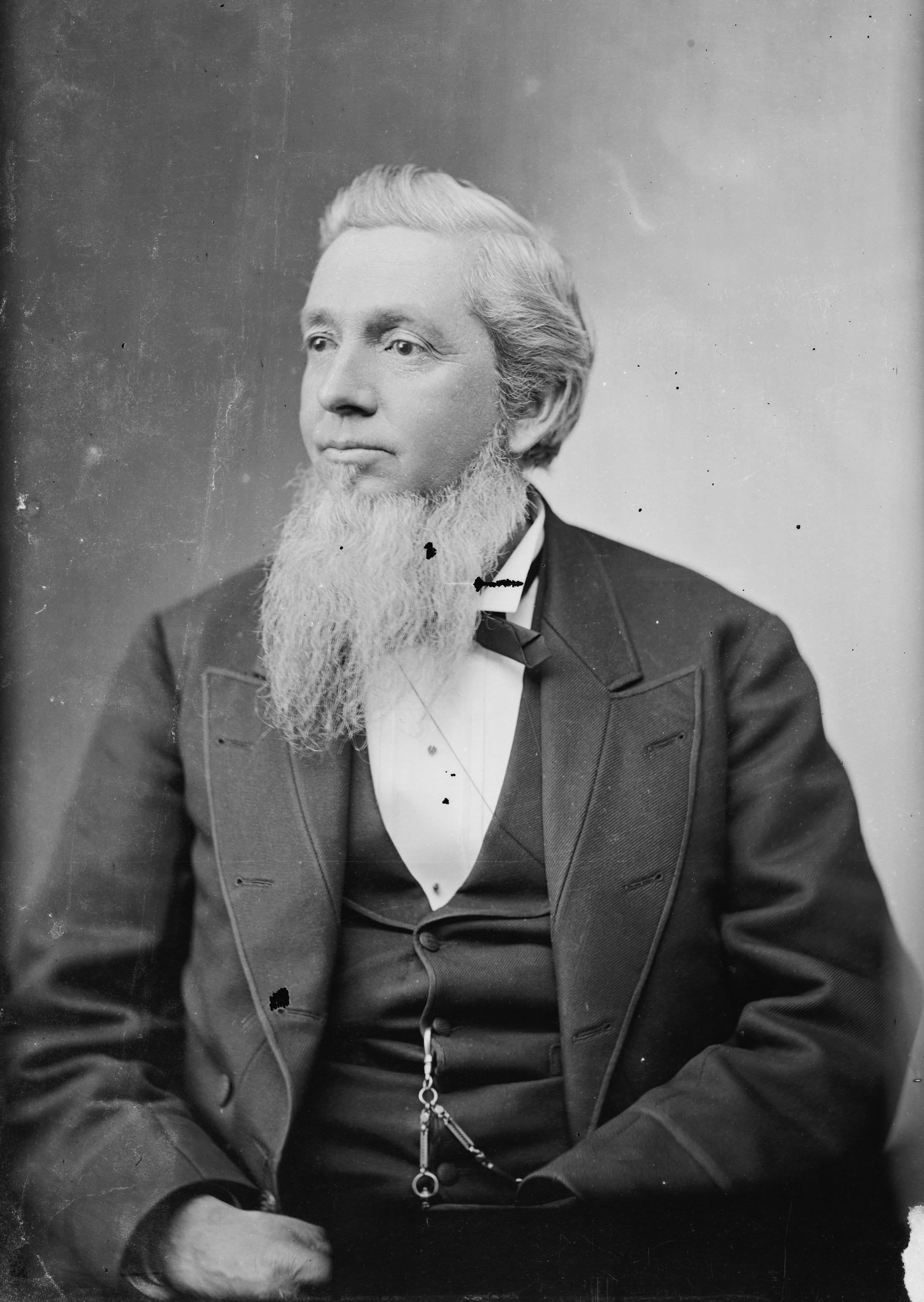 Isaac Newton Evans. Library of Congress description: "Evans, Hon. I.N. of Pa."